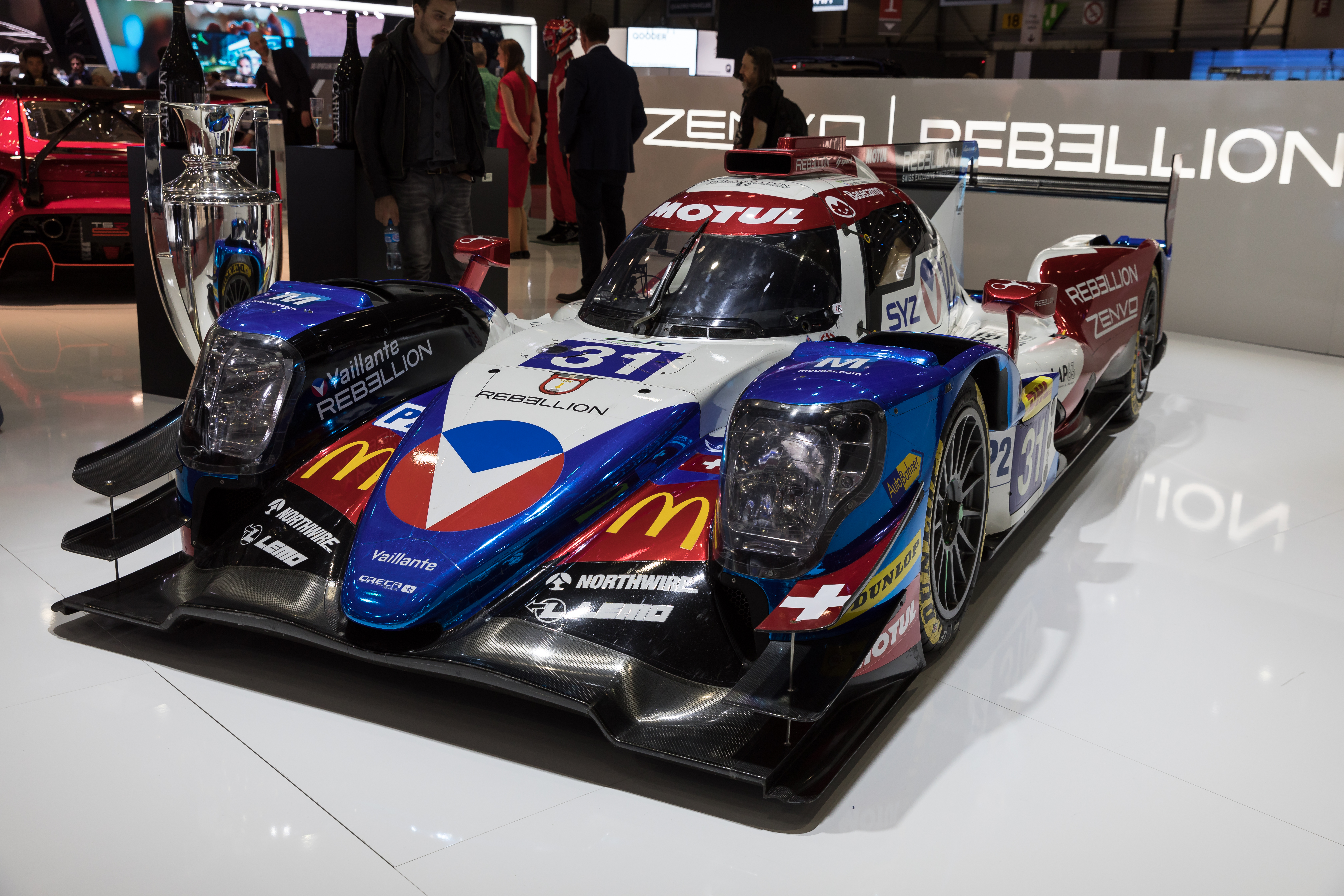 Geneva International Motor Show 2018